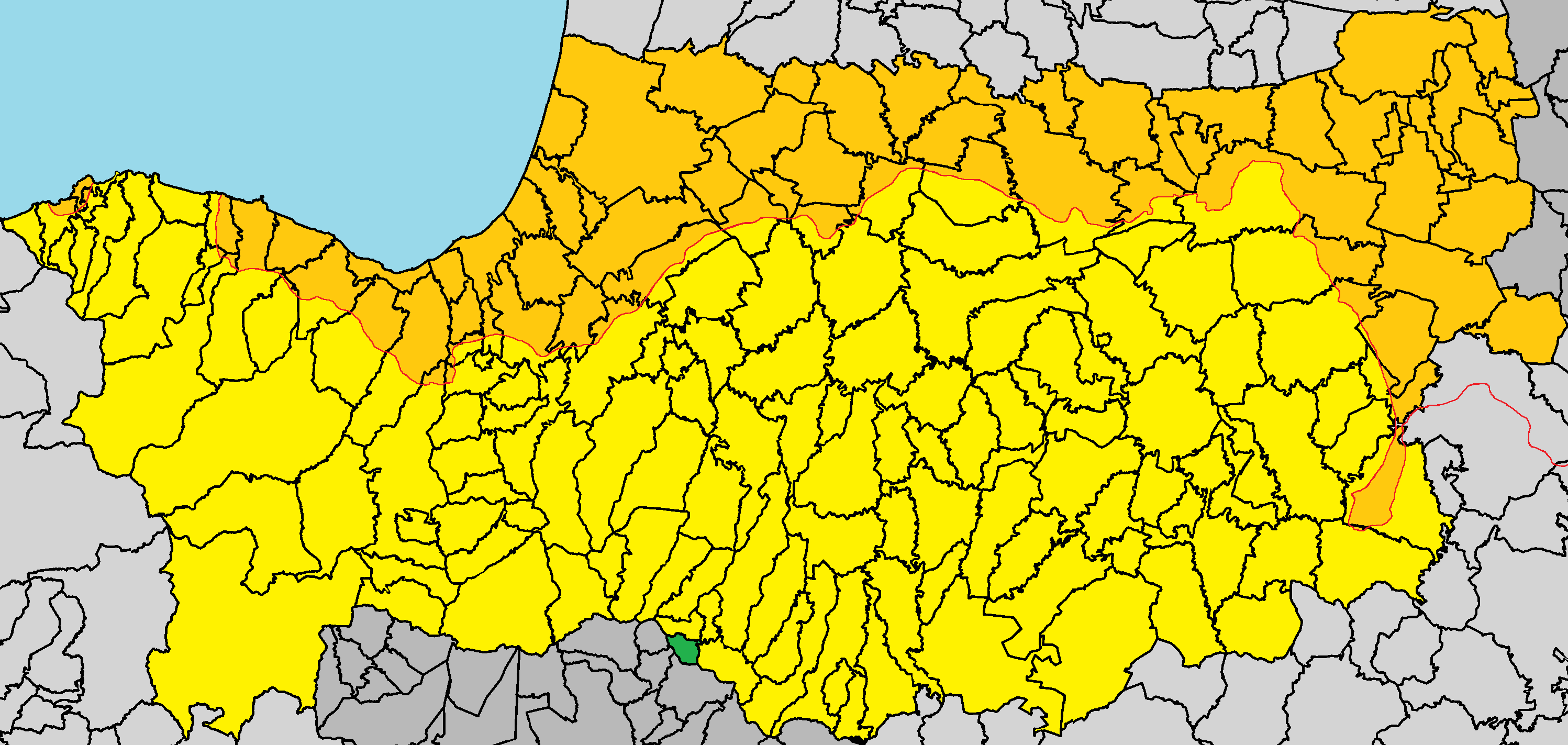 Polystypos in Nicosia District.